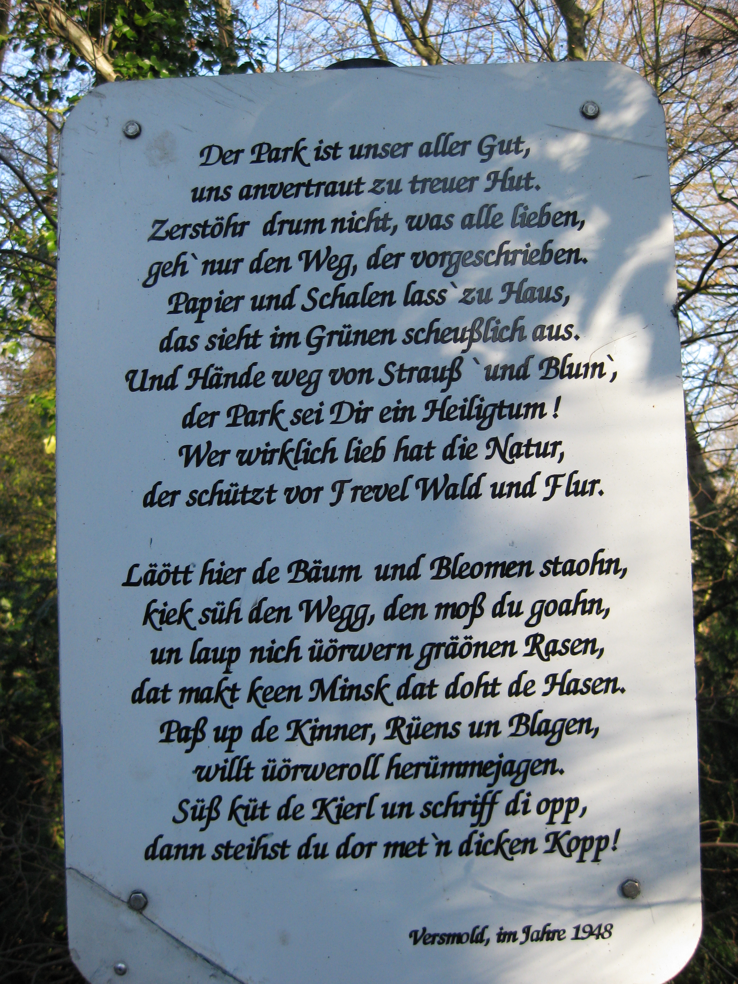 Rules of conduct in the municipal park of Versmold, standard German and low German